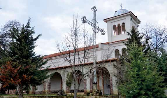 Saint Panteleimon Church, Tushemisht, Pogradec, Albania